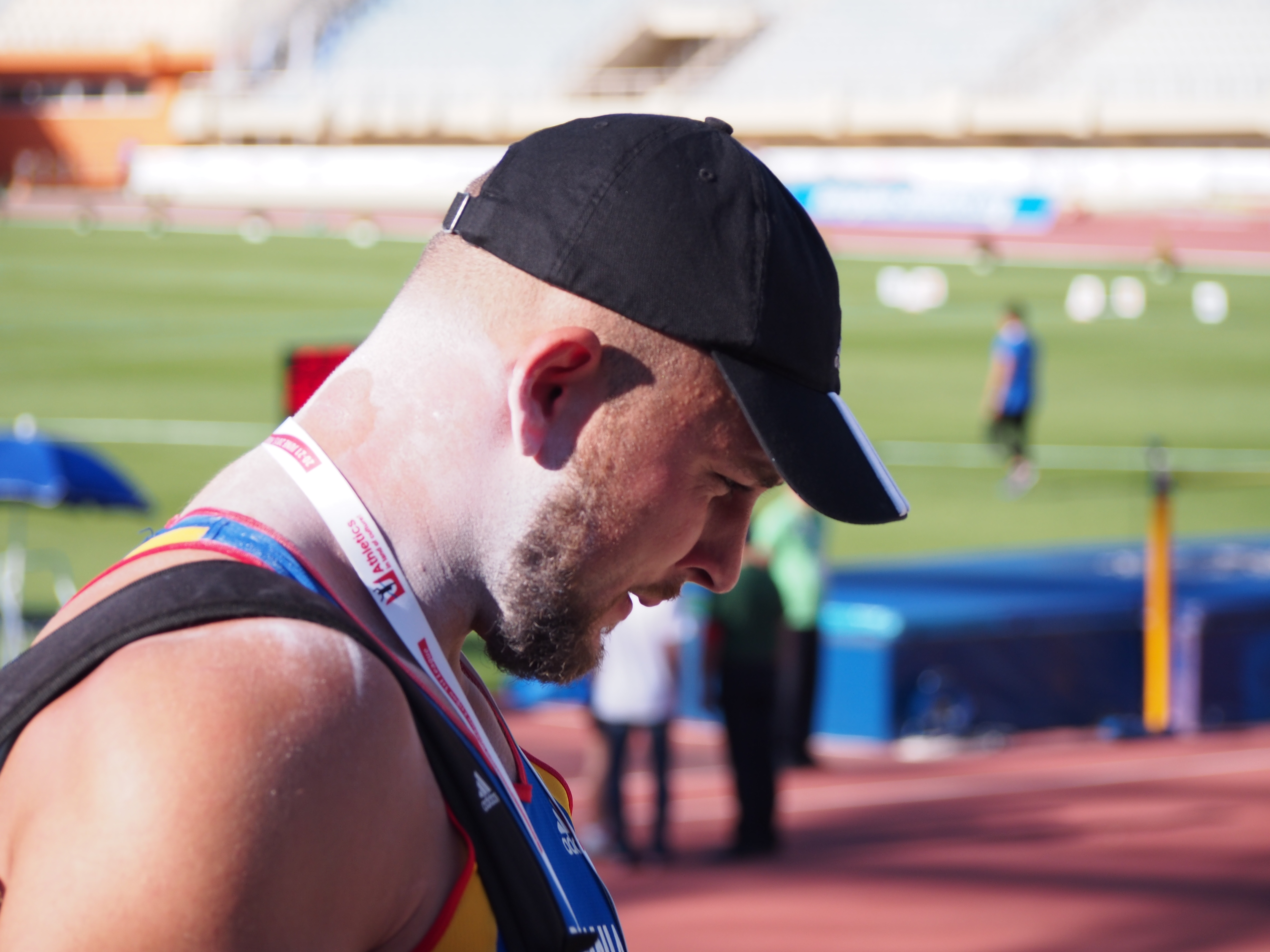 Andrei Gag after the end of the shot put event at 2015 European Team Championships First League.